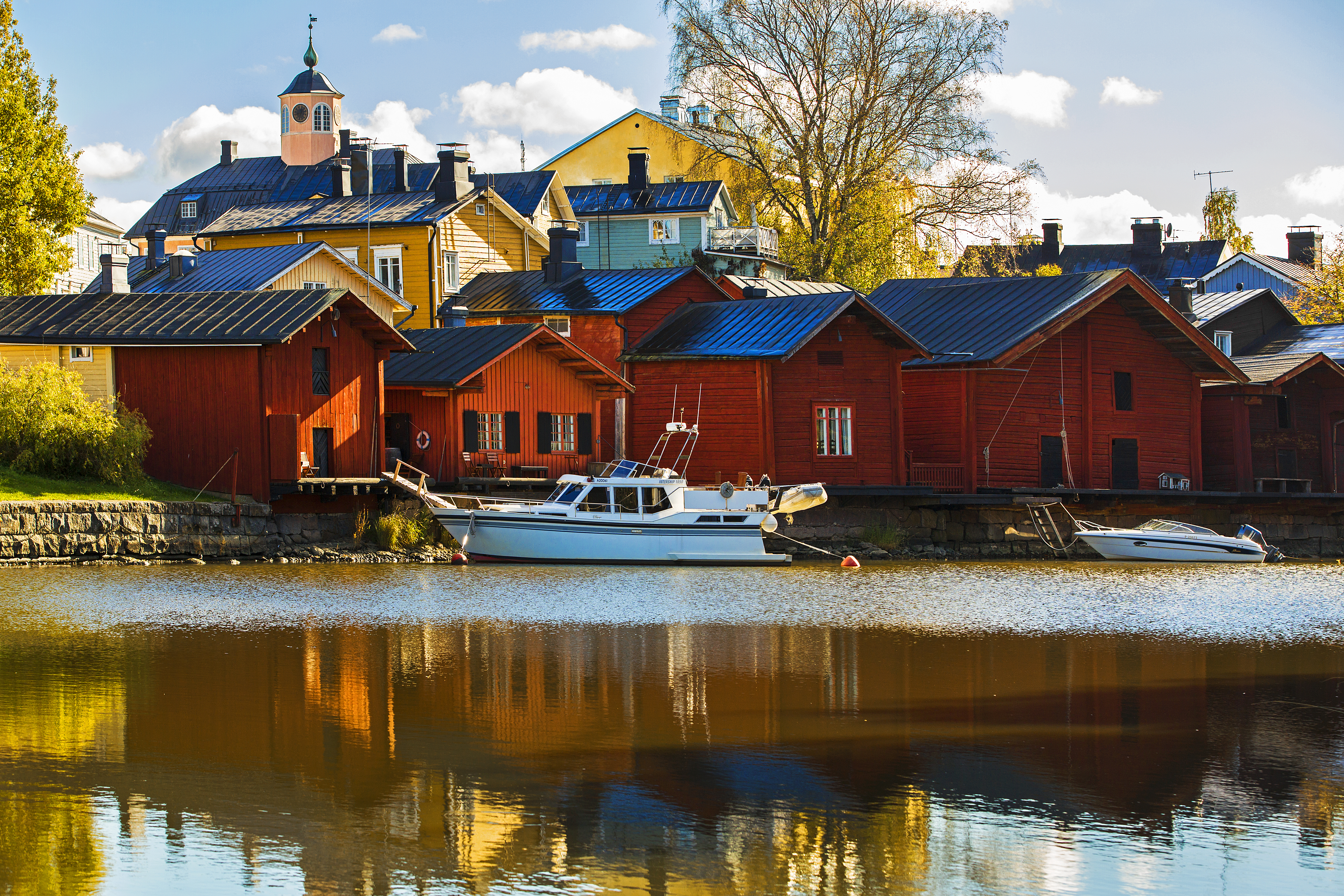 Old barns, where in the past different goods were stored. Porvoo, Finland